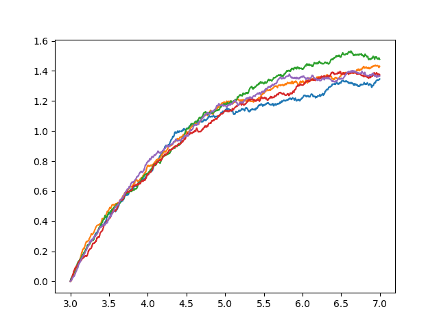 A simulation of 5 realisations of a path of an Ornstein-Uhlenbeck process using the Euler-Maruyama method